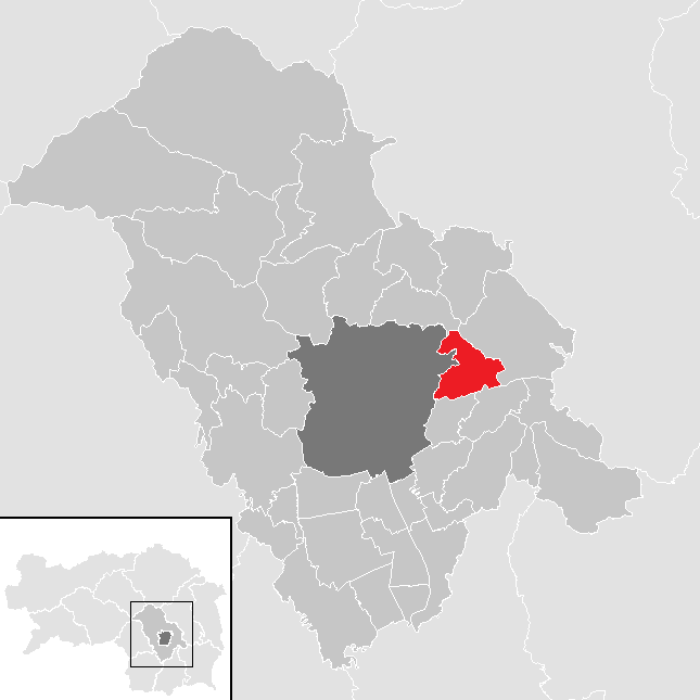 District Graz-Umgebung, Styria